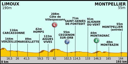 Profil of the 15th stage of the Tour de France 2011